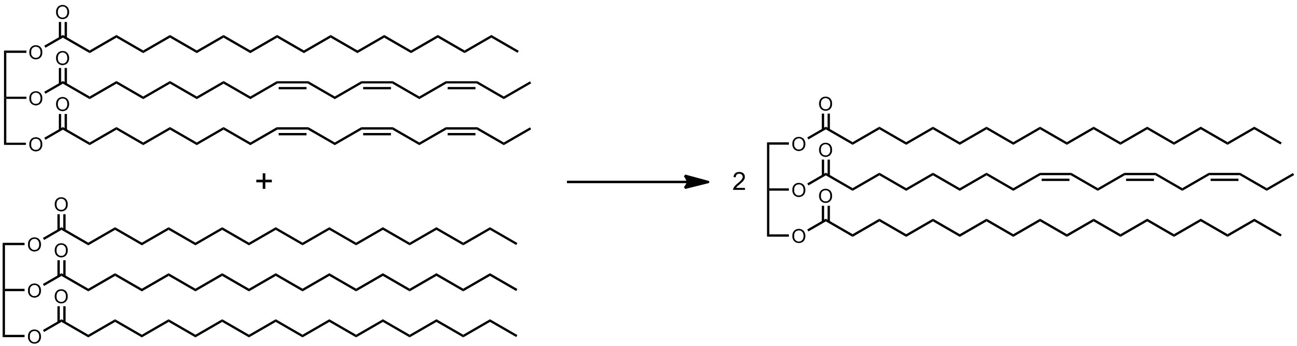 Interesterification: a fatty acid residue is interchanged with another, either on the same molecule or on another molecule of a lipid (the second case is shown here).